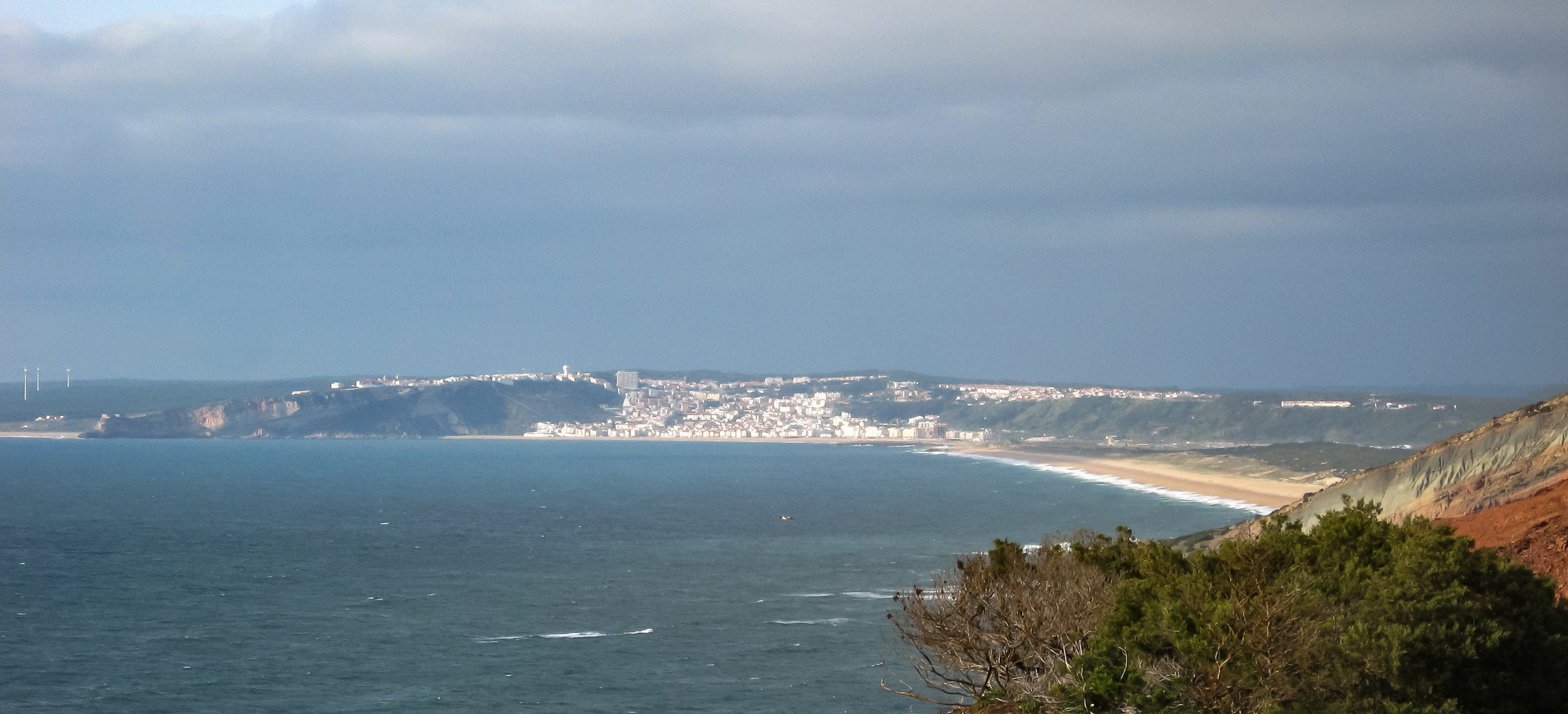 Nazaré, Portugal, bay: Sítio (Nossa Senhora da Nazaré)-Nazaré (beach)-Pederneira (city of the old Coutos de Alcobaca)